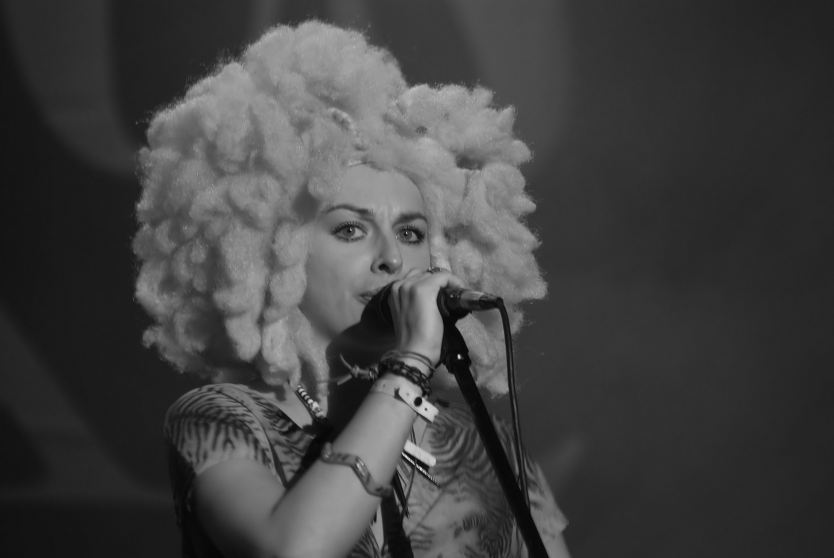 Minewra from Big Fat Mama during 27. edycji Rawy Blues Festival